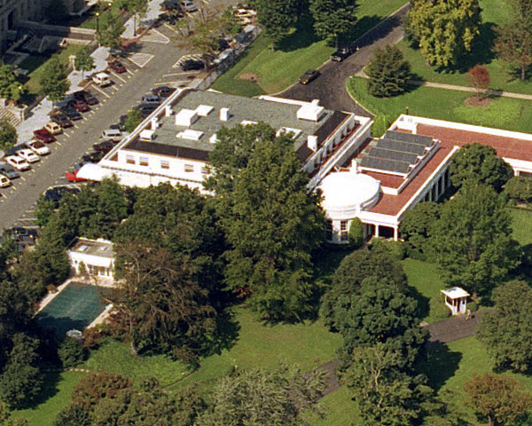 The West Wing of the White House in 1984 during Reagan Administration.